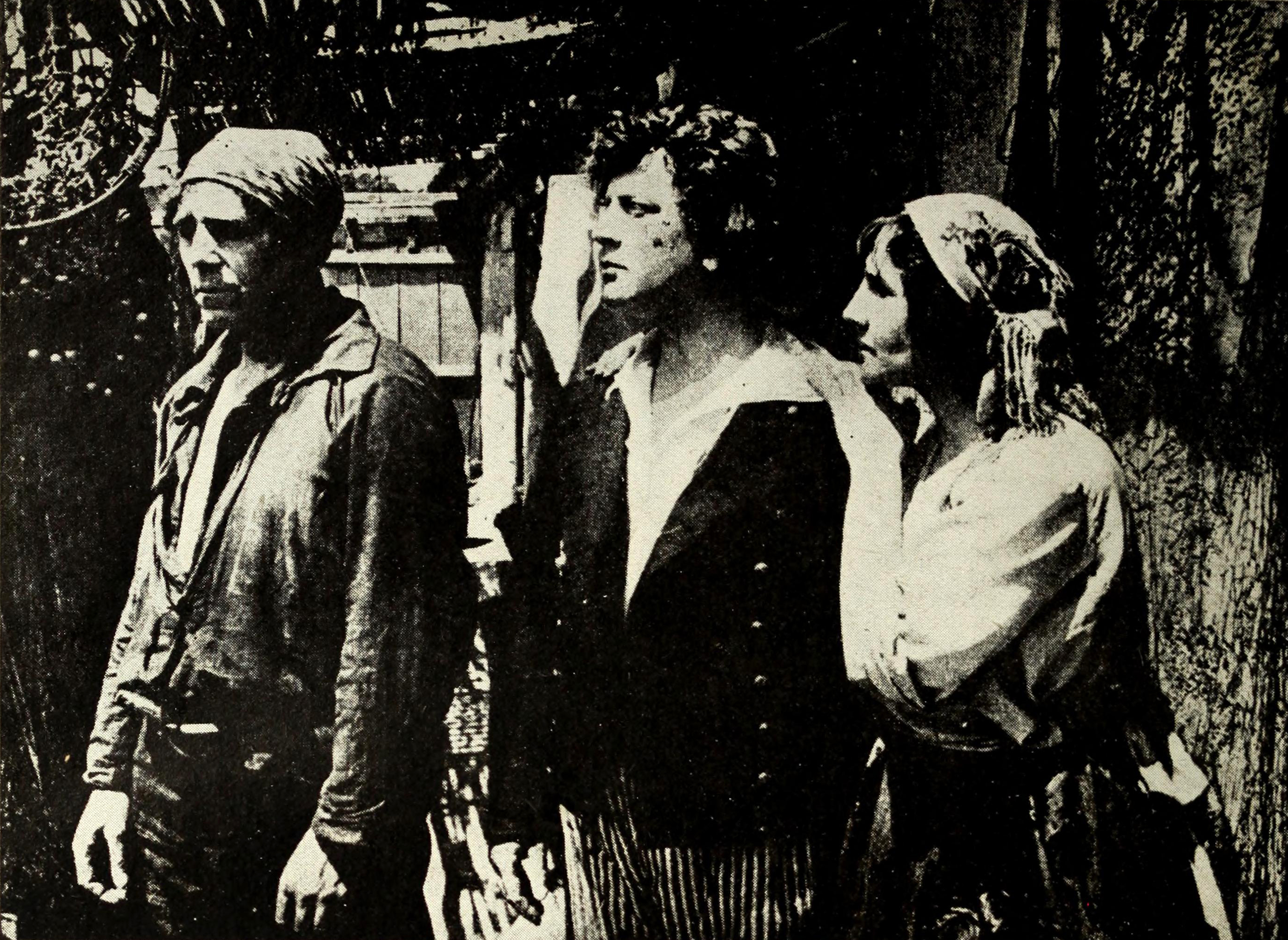 Photogram. Center: Léon Mathot as Dantès; right Nelly Cormon as Mercédès.